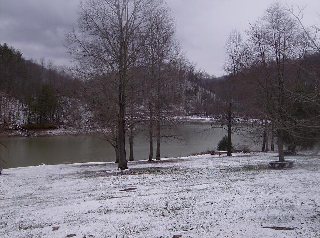 Martins Fork Lake in the winter.